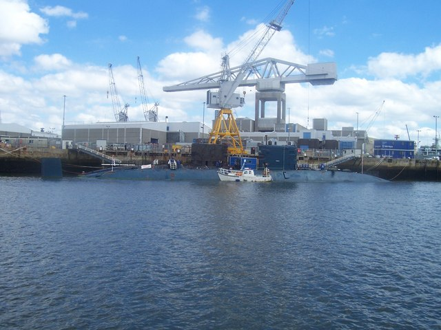 Plymouth : Trafalgar Submarine at Devonport Naval Dockyard Plymouth is the base for seven of the Trafalgar class nuclear powered hunter killer submarines and the main refitting base for all Royal Navy nuclear submarines. Work was completed by Carillion in 2002 to build a refitting dock to support the Vanguard class Trident missile nuclear ballistic missile submarines.